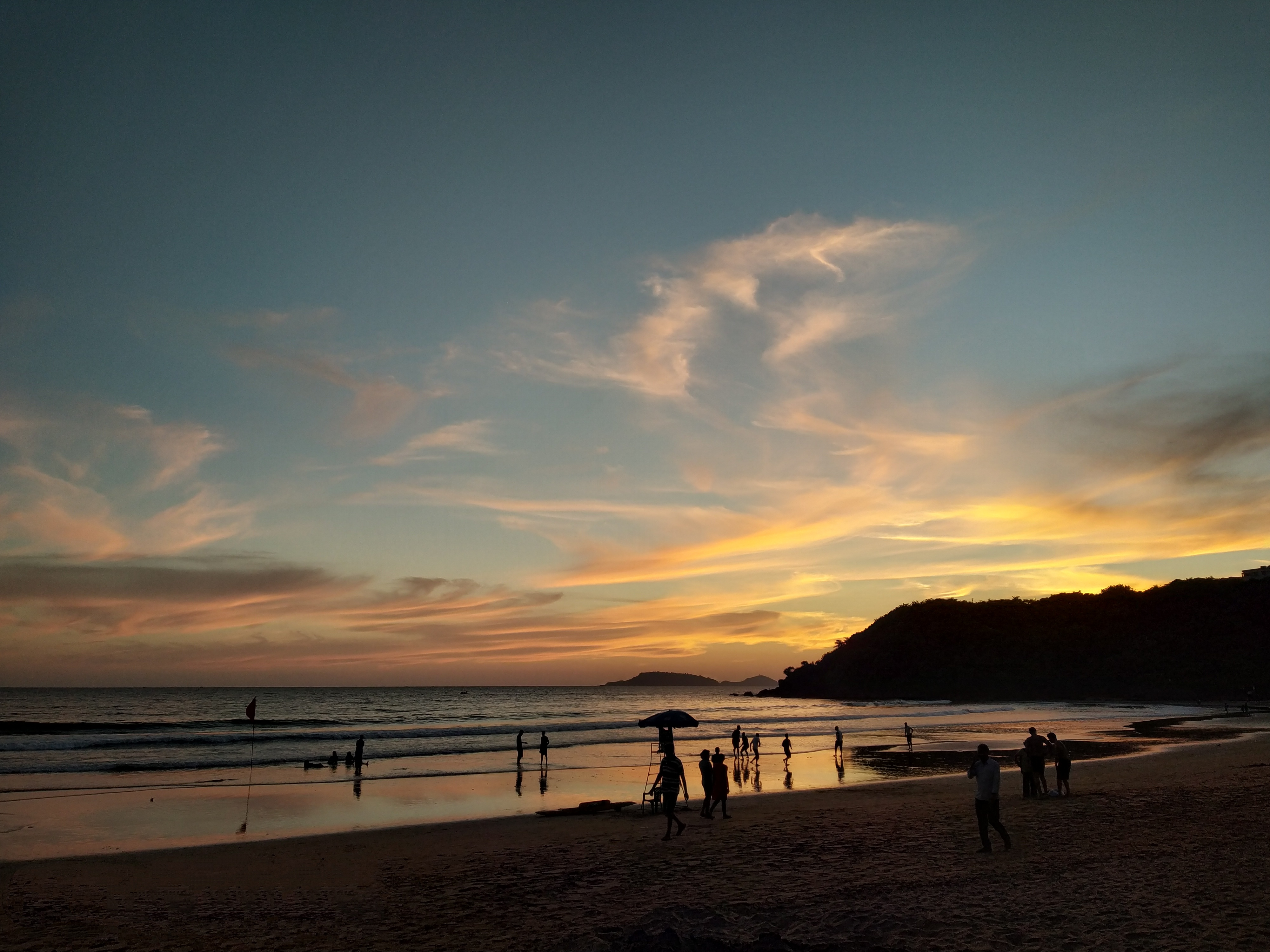 This is a scenery shot of setting Sun at Bogmalo beach, Goa, India